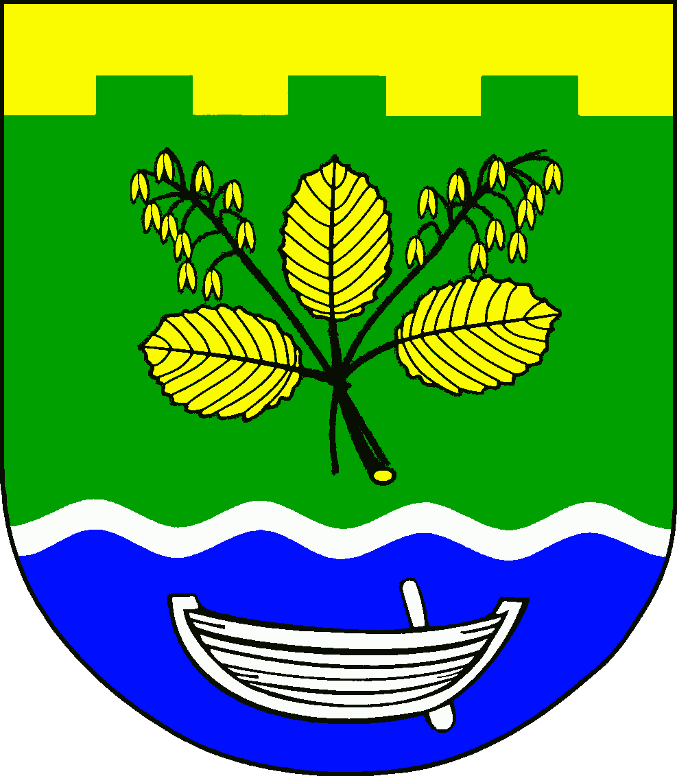 Coat of arms of the municipality Drage in Schleswig-Holstein, Germany.